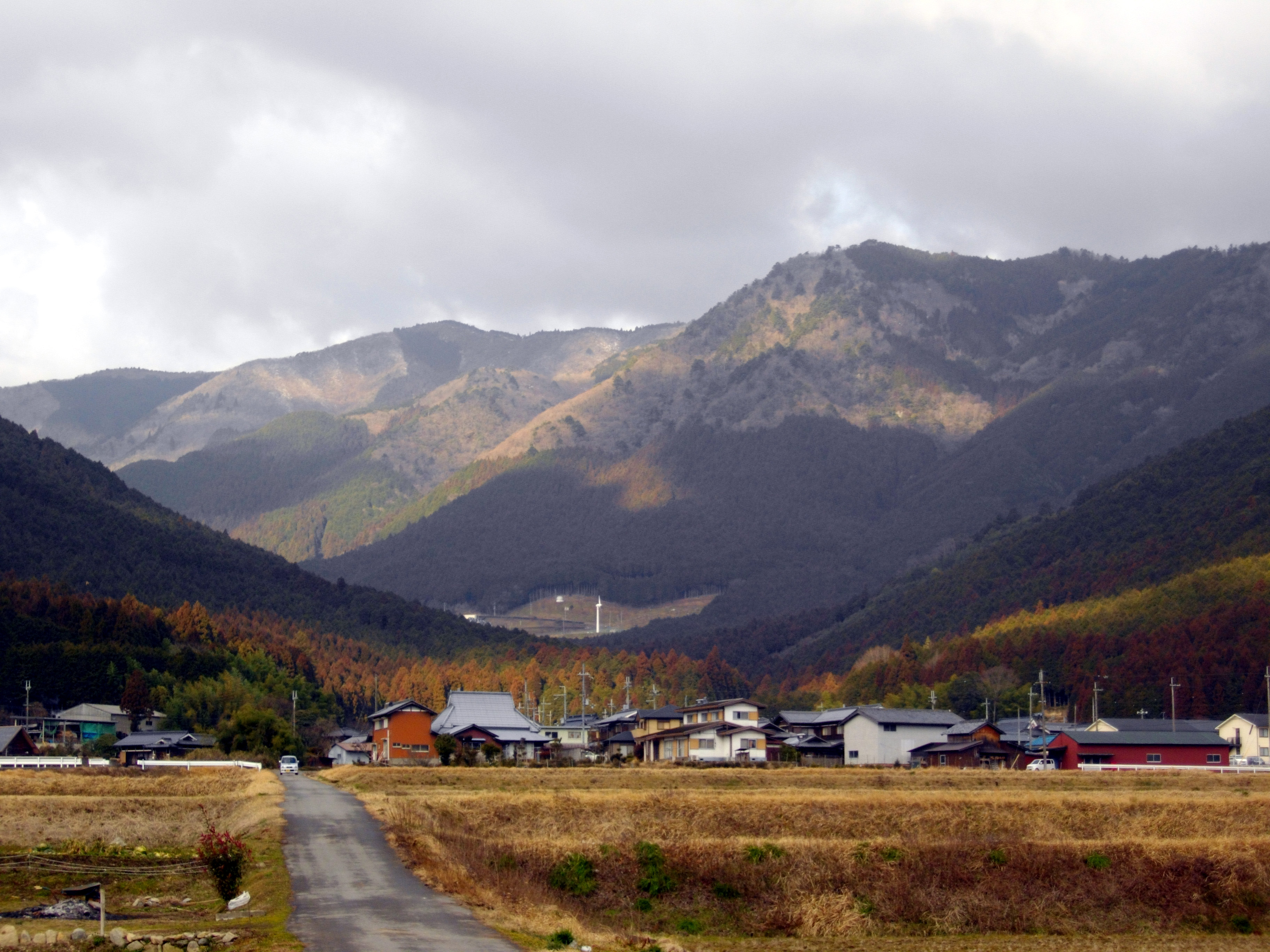 Mount Sengamine as seen from the east in Hyogo Prefecture, Japan. Taken from Kadomura,Taka.